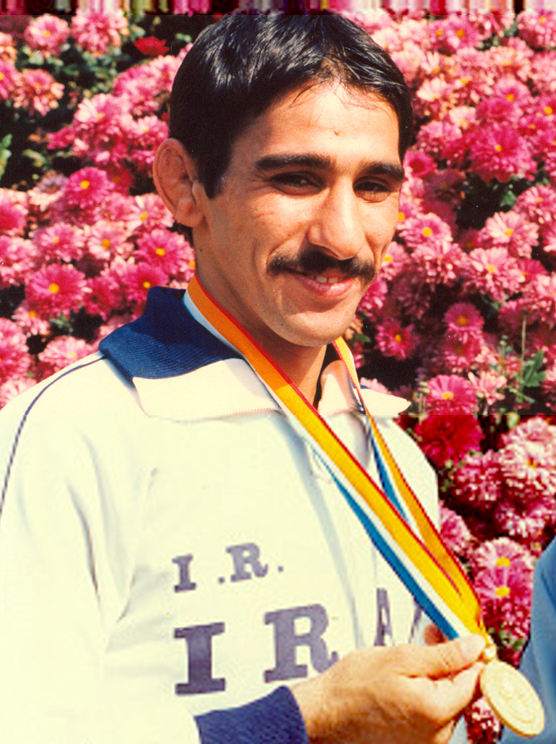 Askari Mohammadian, at the 1986 Asian Games or at the 1983 Asian Championships in Tehran (the only international competitions he won)